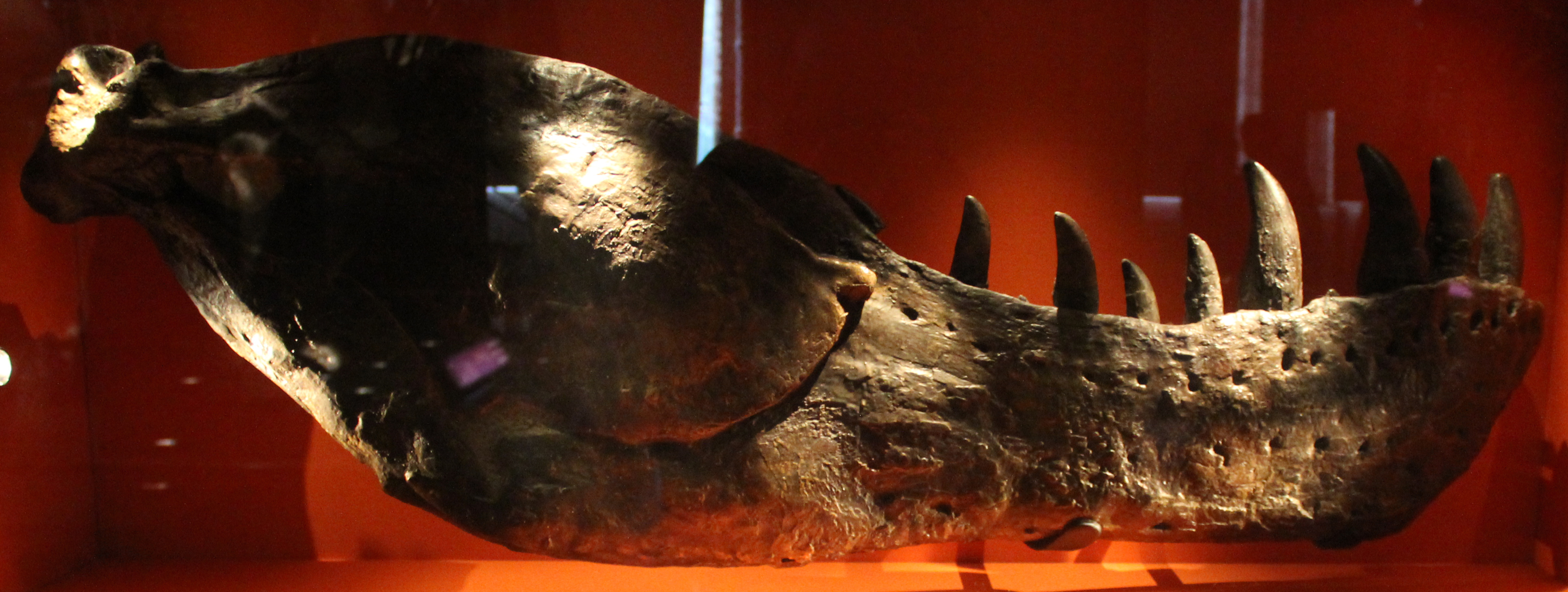 Natural History Museum, London, England, UK. Complete indexed photo collection at .